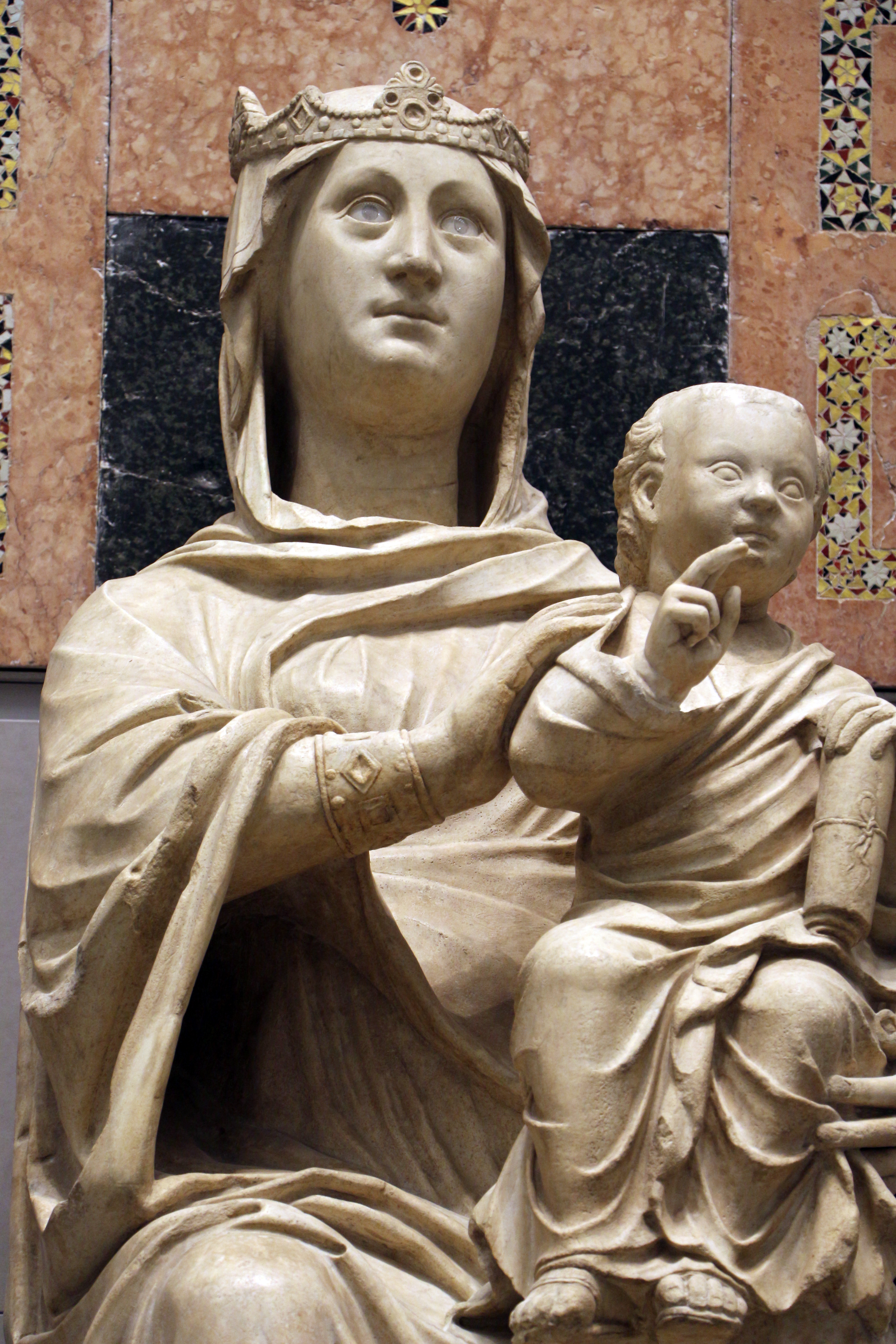 Museo dell'Opera del Duomo (Florence)